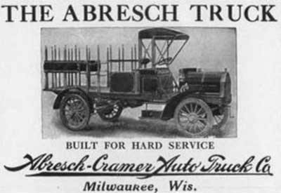 1910 Abresch-Cramer truck ad. Shown is Model A, with a payload of 1.5-2 tn. These trucks were assembled vehicles built by the Charles Abresch Co. of Milwaukee, Wisc. Coachwork was done in-house, as the Company was a Long time builder of Commercial horse drawn vehicles. Engine was a 23 HP 4 cylinder unit. All trucks featured shaft drive to the countershaft, and chains to the rear wheels. Most Abresch-Cramer customers were brewers or bottlers.